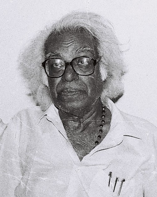 Vaikom chandrasekaran nair